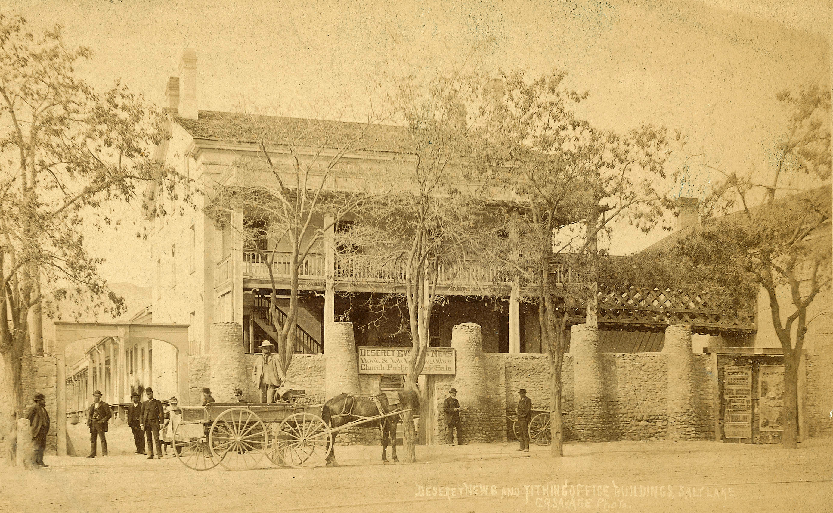 The Deseret Store on the corner of Main Street and South Temple in downtown Salt Lake City. The addition to the rear of the building is the LDS Church tithing office, and the addition to the east (right side) was built by the Deseret News when their space in the store became inadequate.